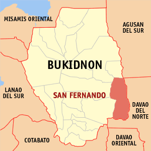 Map of the Bukidnon showing the location of San Fernando